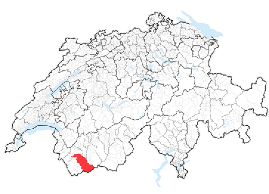 Location Val de Bagnes